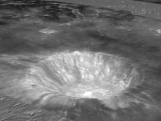 Hubble Space Telescope image of Aristarchus crater mapped onto simulated topography derived from Clementine data.